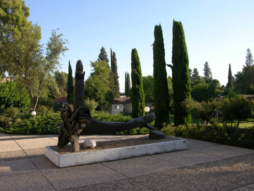 Memorial of the victims of the terrorist attack on June 13, 1974, at Kibbutz Shamir, Israel